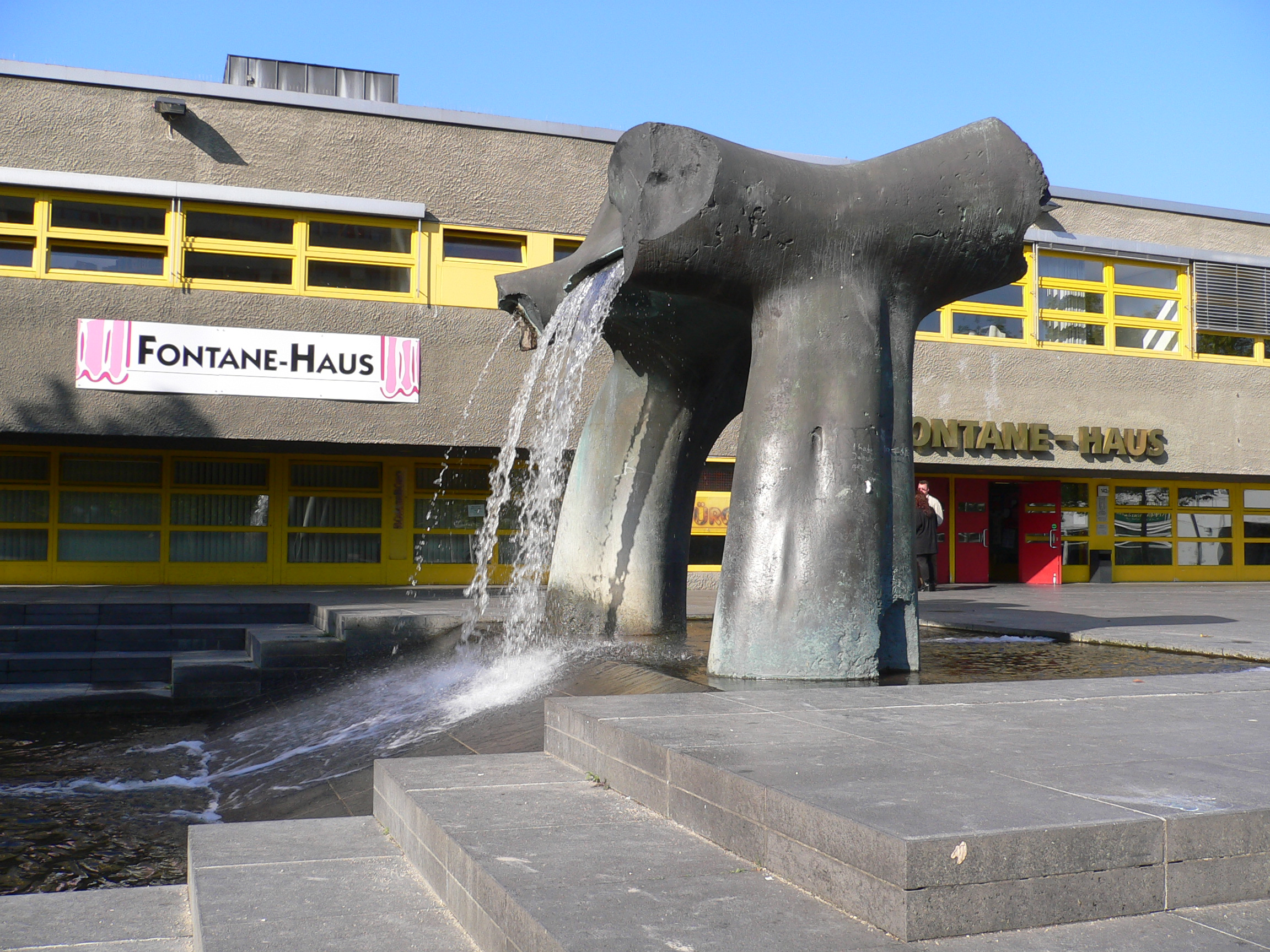 spring with sculpture "Fontanebogen" by Emanuel Scharfenberg, Fontane-Haus, Märkisches Viertel, Berlin, Germany